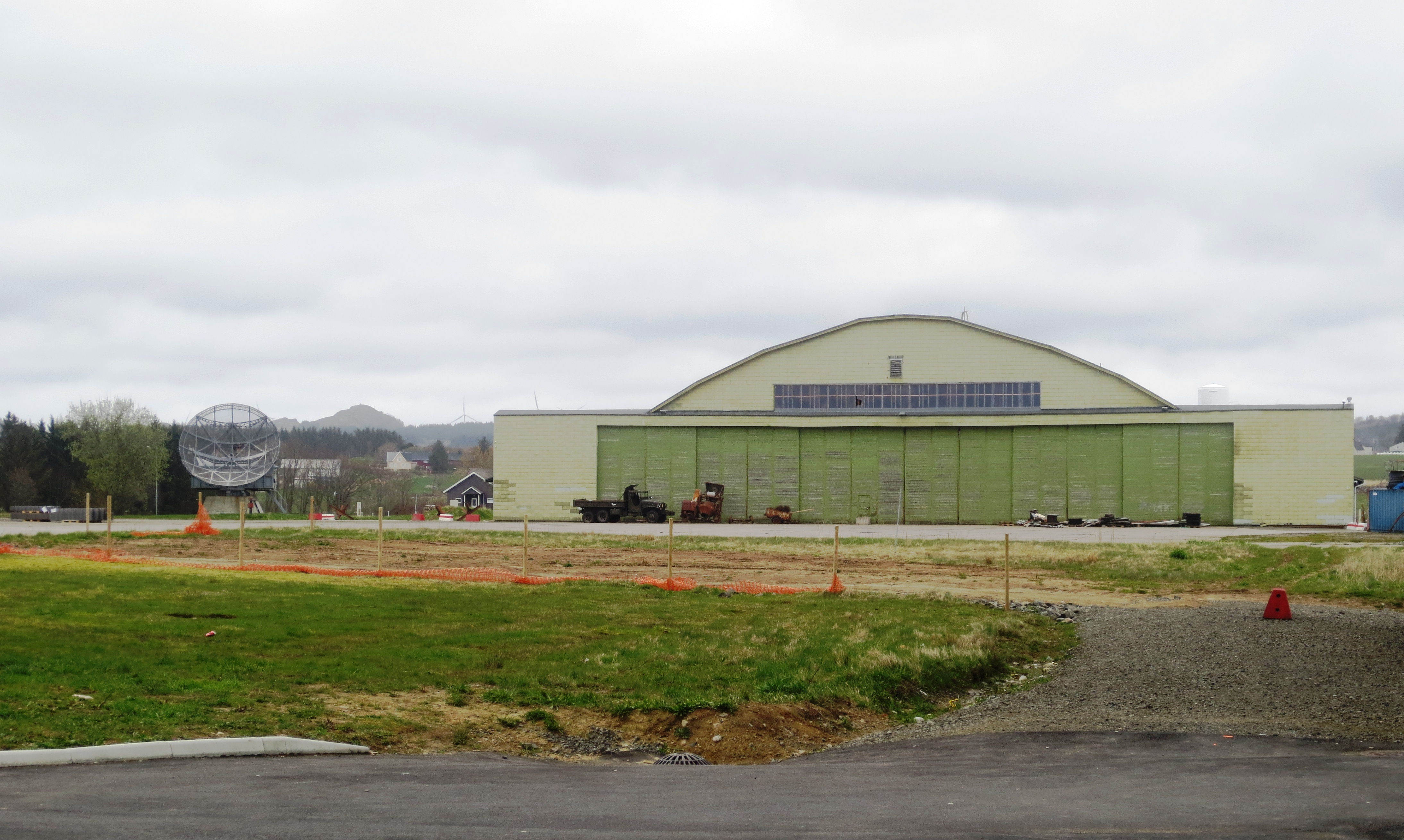 Lista former Airforce Station (flystasjon) in Farsund municipality, Norway